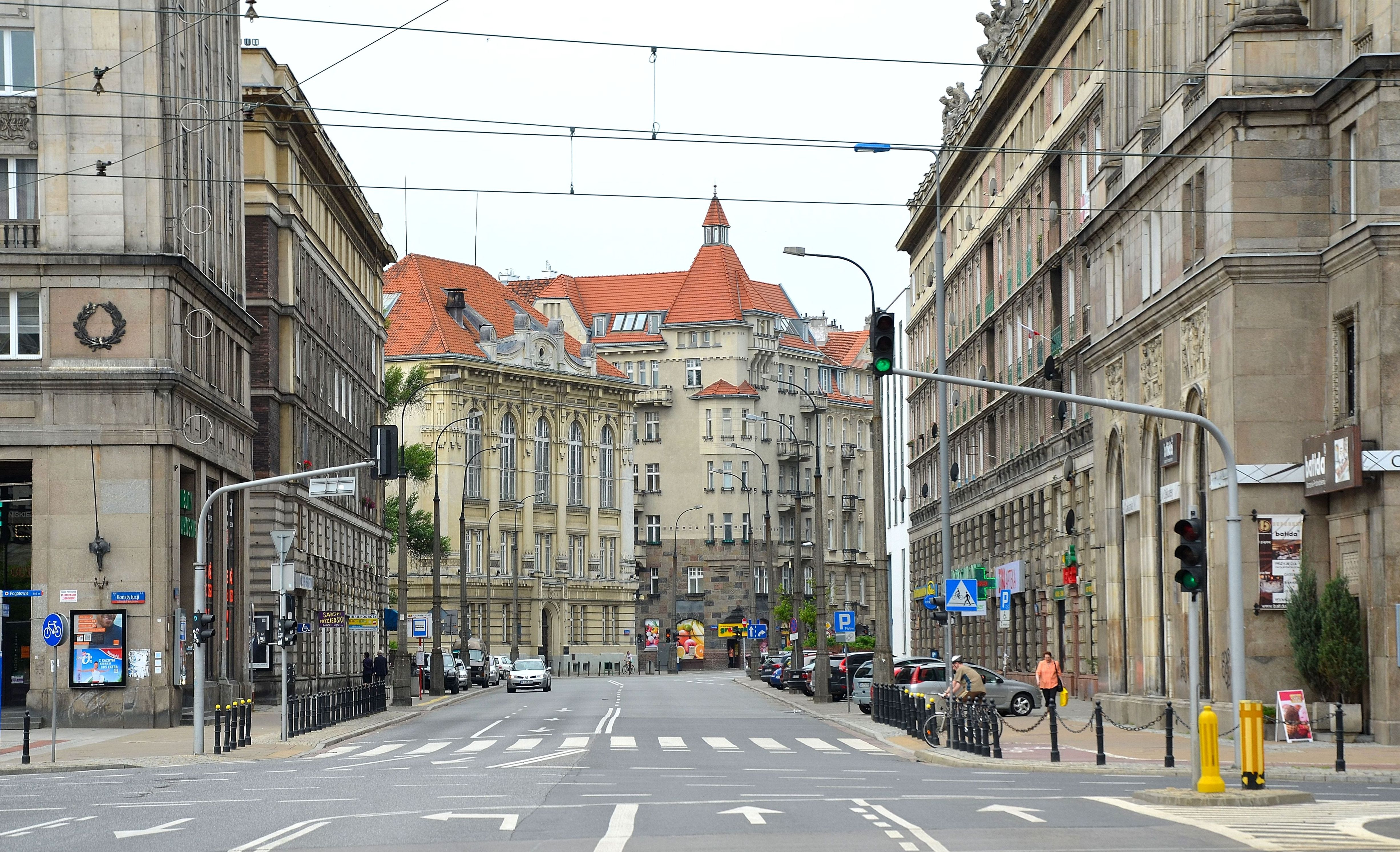 Koszykowa Street near Konstytucji Square in Warsaw